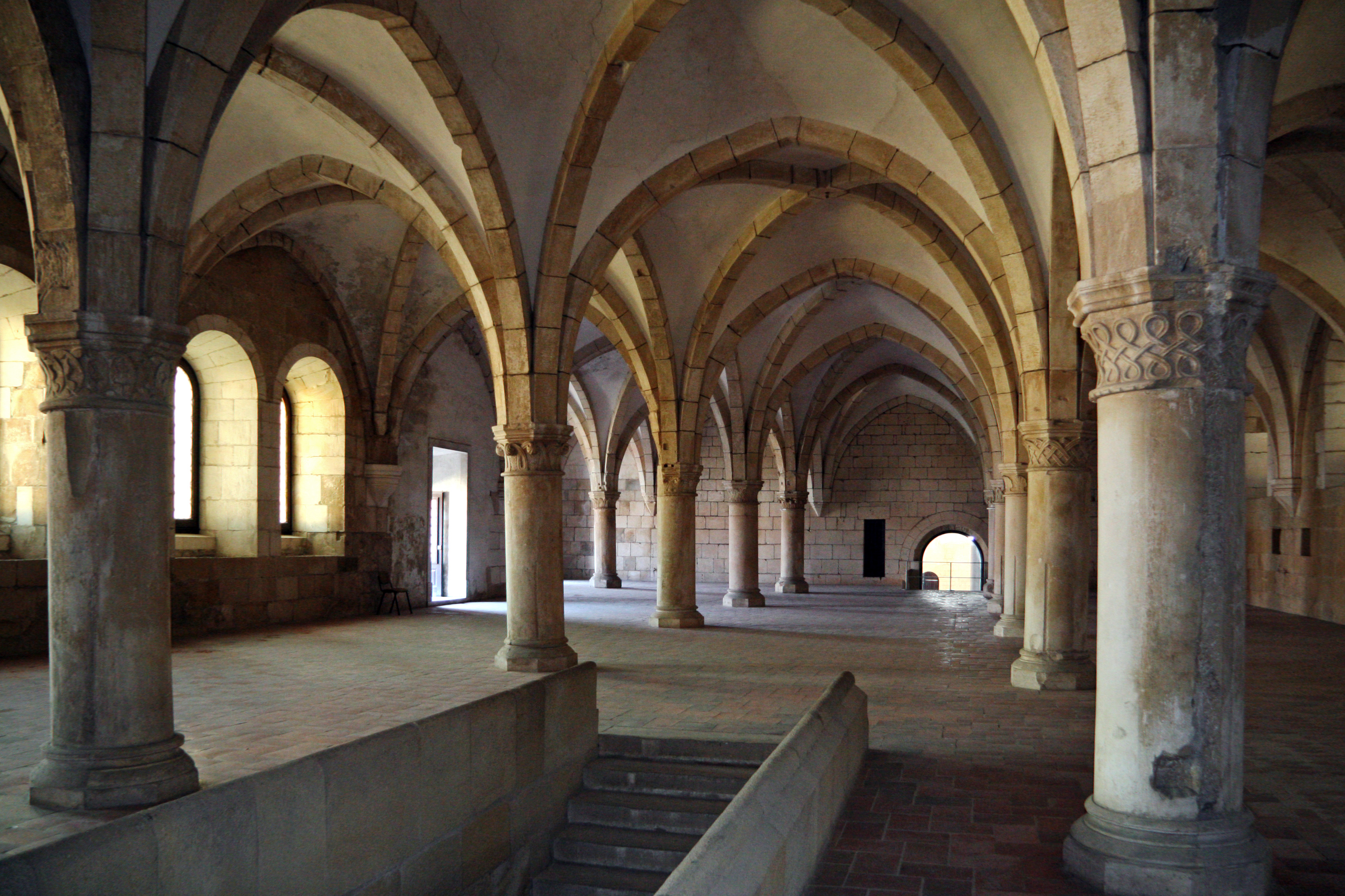 Dormitory of the Alcobaça Monastery, Portugal